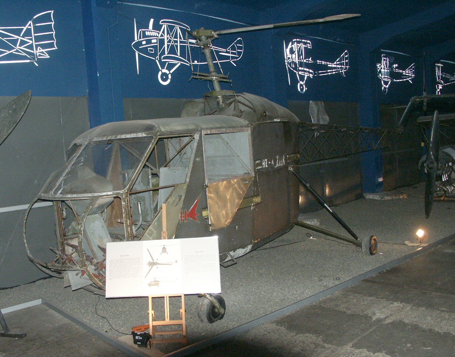 Polish helicopter prototype BŻ-4 Żuk in the Polish Aviation Museum in Kraków, in a damaged condition